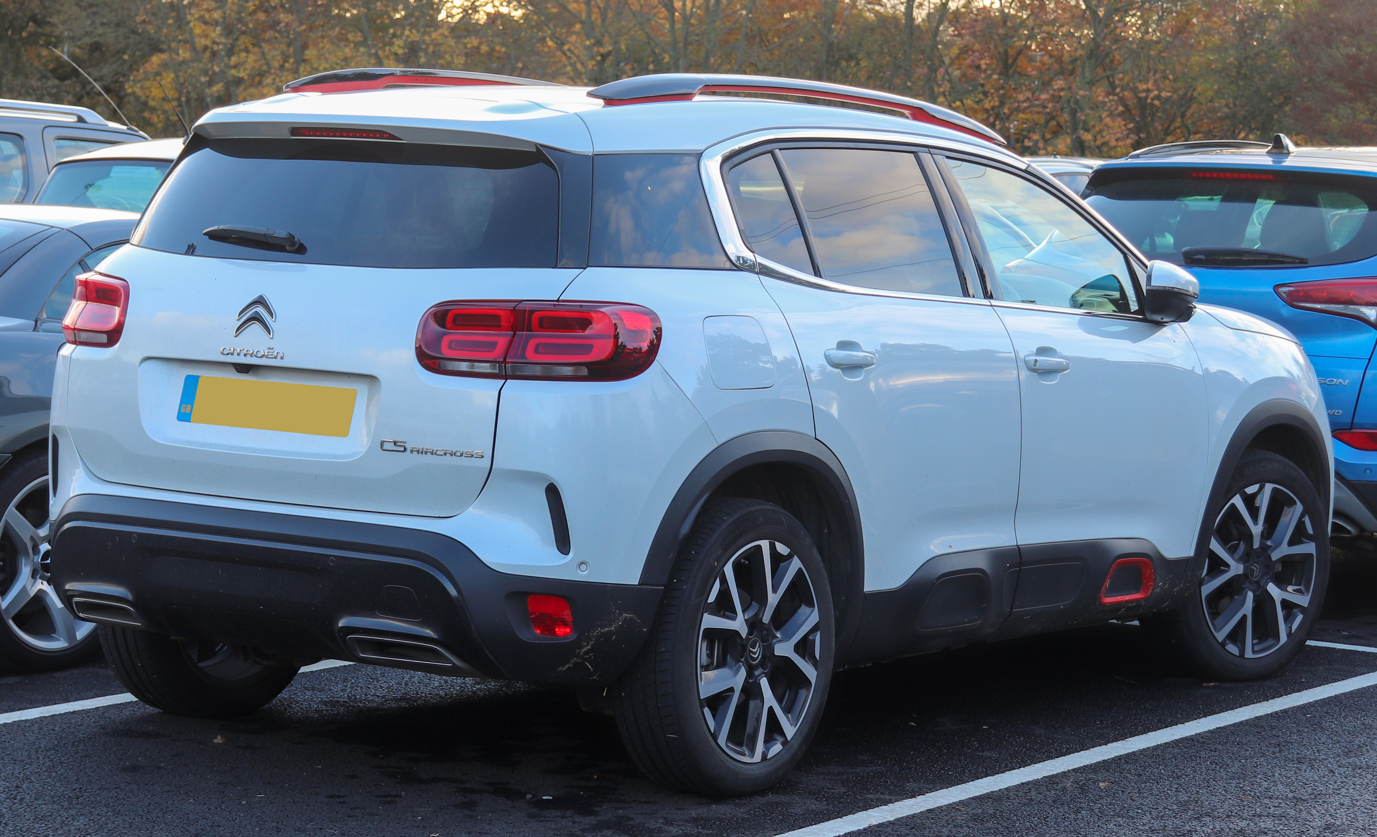 2019 Citroen C5 Aircross Flair Plus BlueHDi 1.5 Taken in the NEC Car Park, Birmingham